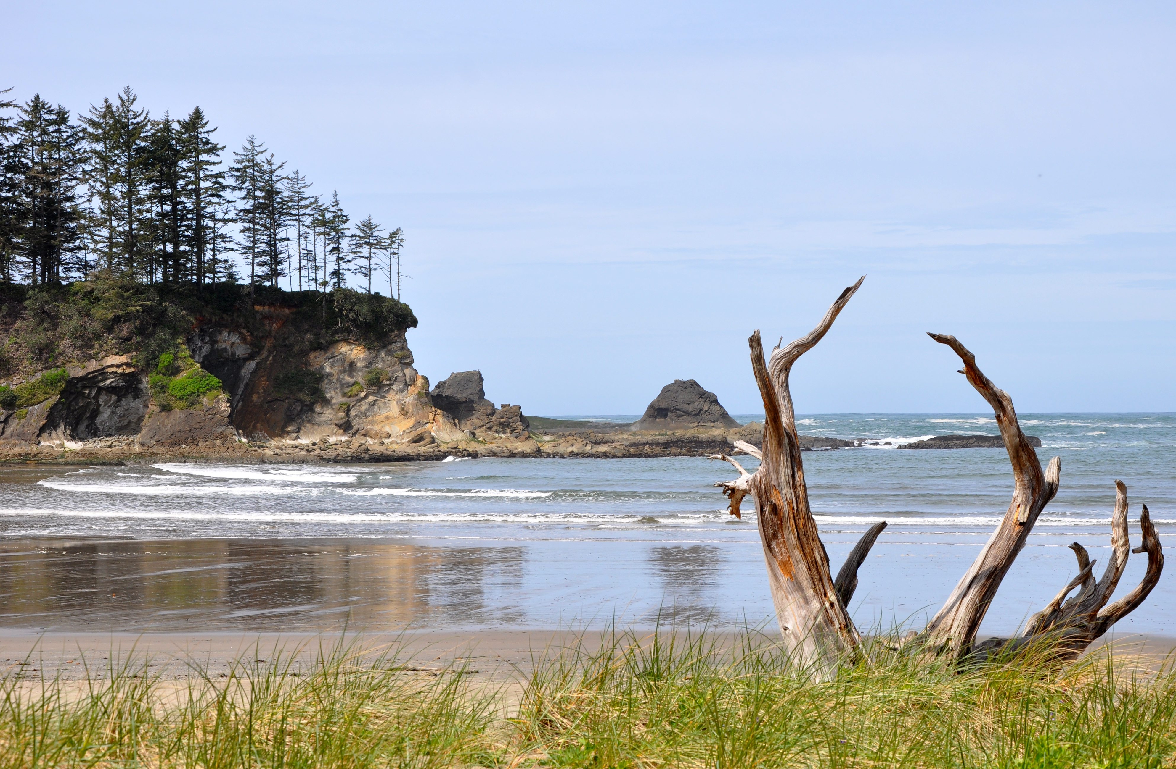 View from the shore of Sunset Bay State Park along the Pacific coast of the U.S. state of Oregon